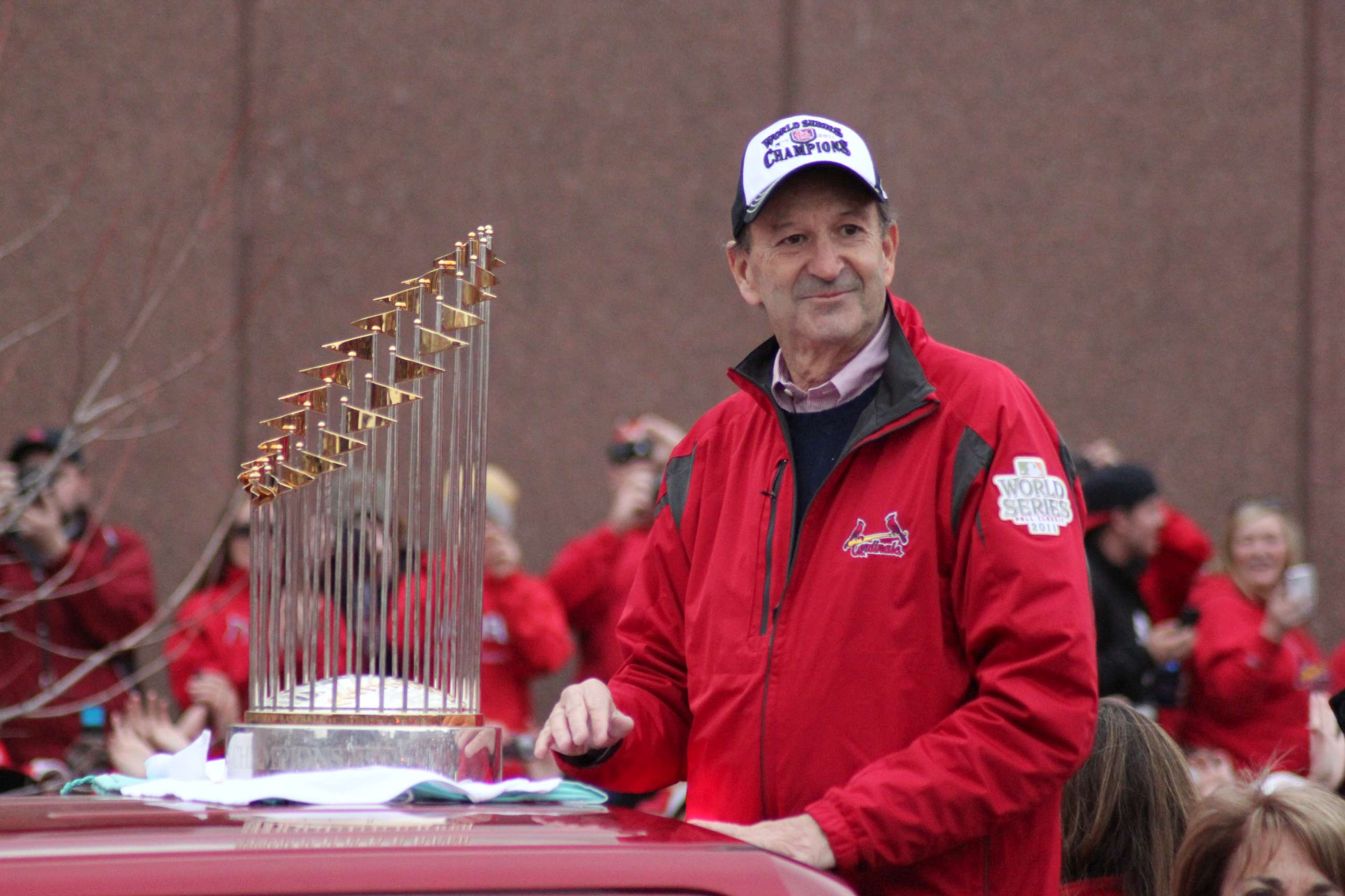 William DeWitt, Jr. during the 2011 World Series victory parade Saint Louis Oct 30, 2011.